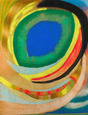 Kosmisches Auge by Otto Freundlich, 1921-22, 81 x 65 cm., pastel on cardboard, private collection